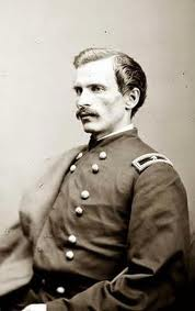 Henry Alanson Barnum, 12th and 149th New York Infantry; Twice Wounded; Medal of Honor